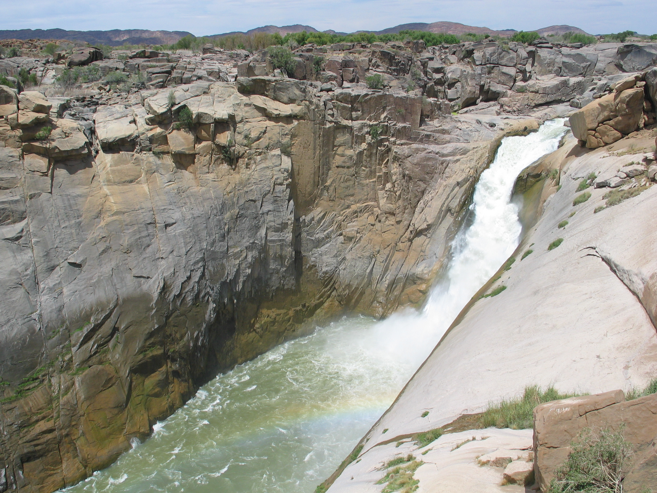 Augrabie Falls in South Africa 2005